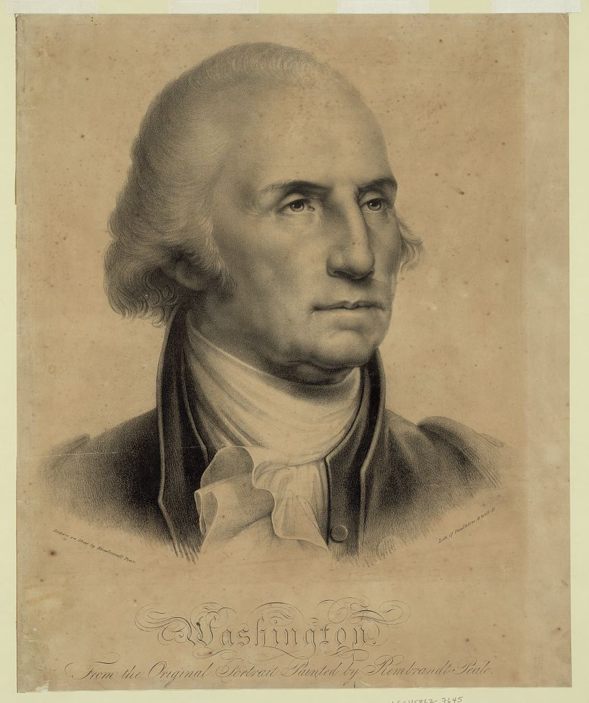 Lithograph portrait of George Washington, created from a portrait by Rembrandt Peale.